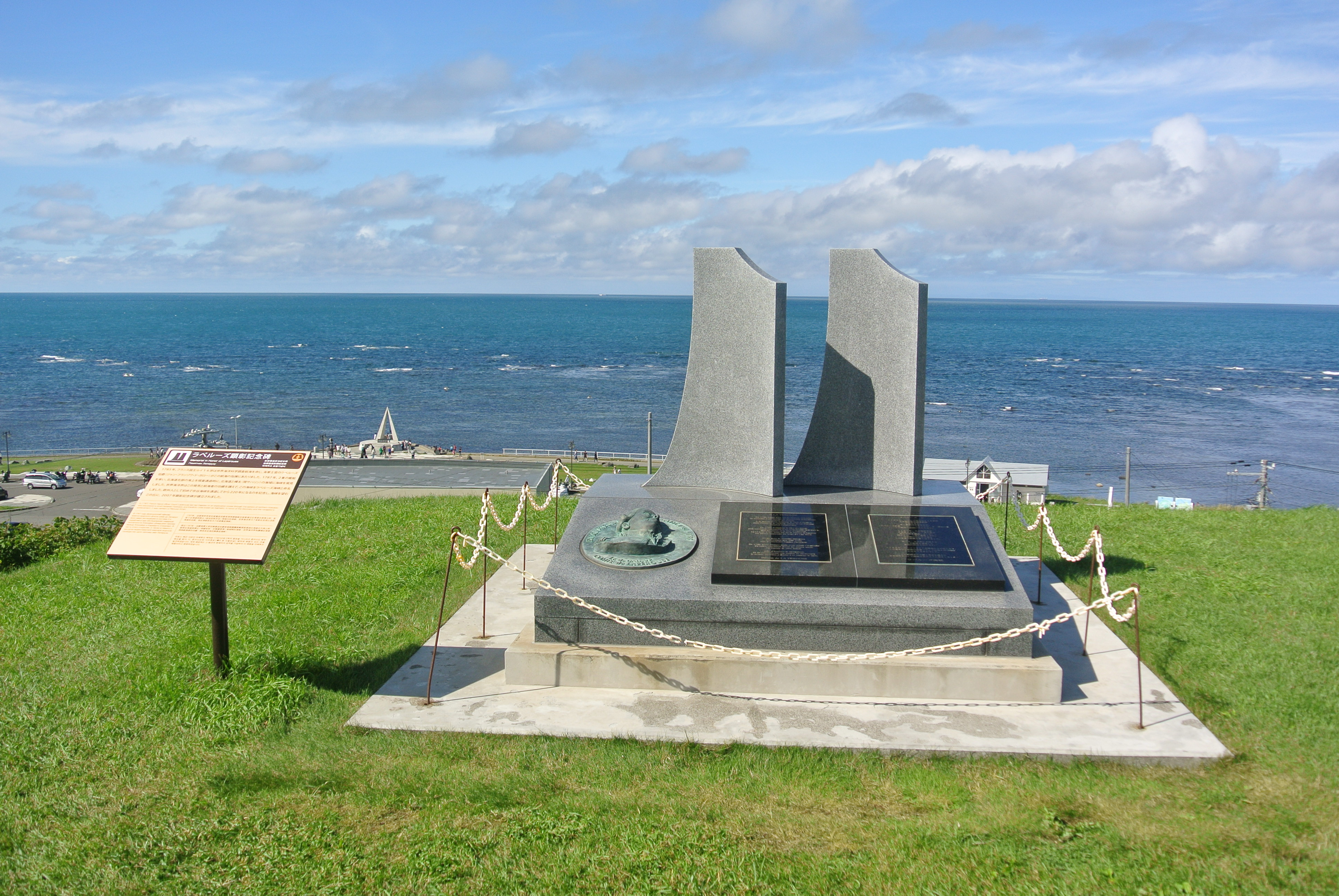 La Pérouse monument in Cape Soya